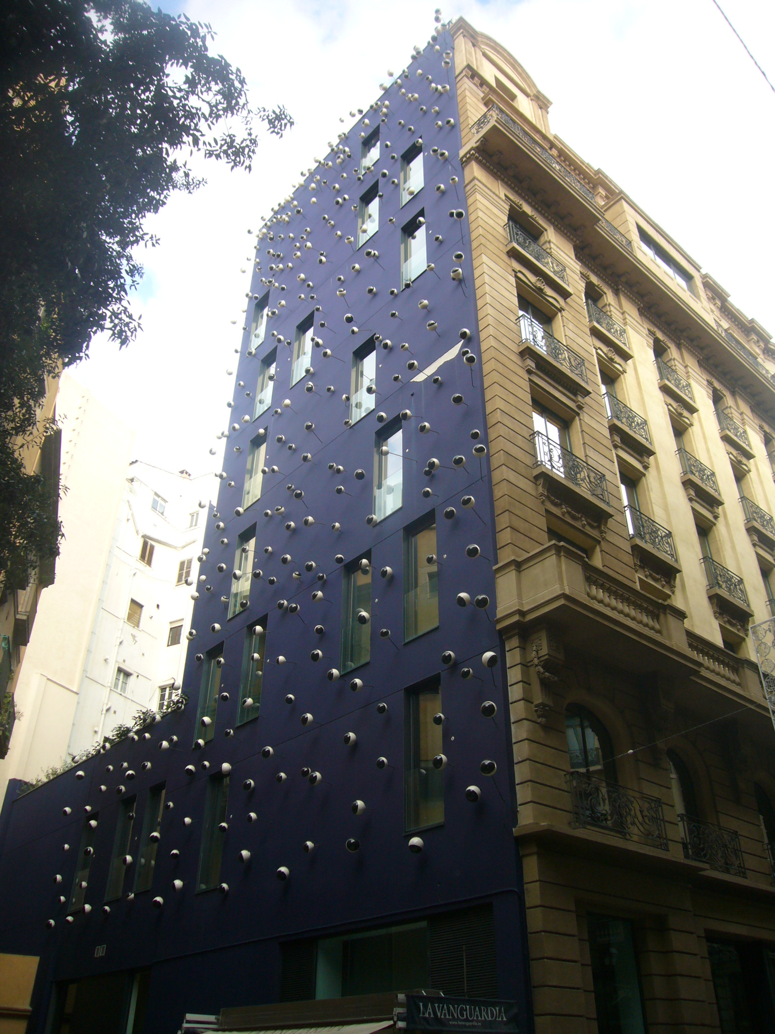 Ohla Hotel (Vía Laietana, 49, Barcelona) - rear facade at carrer Comtal. See many eyes at the wall.